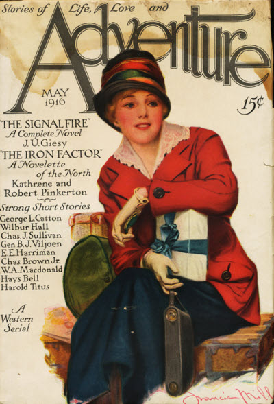 Cover of Adventure, vol. 12 no. 1 (May 1916).